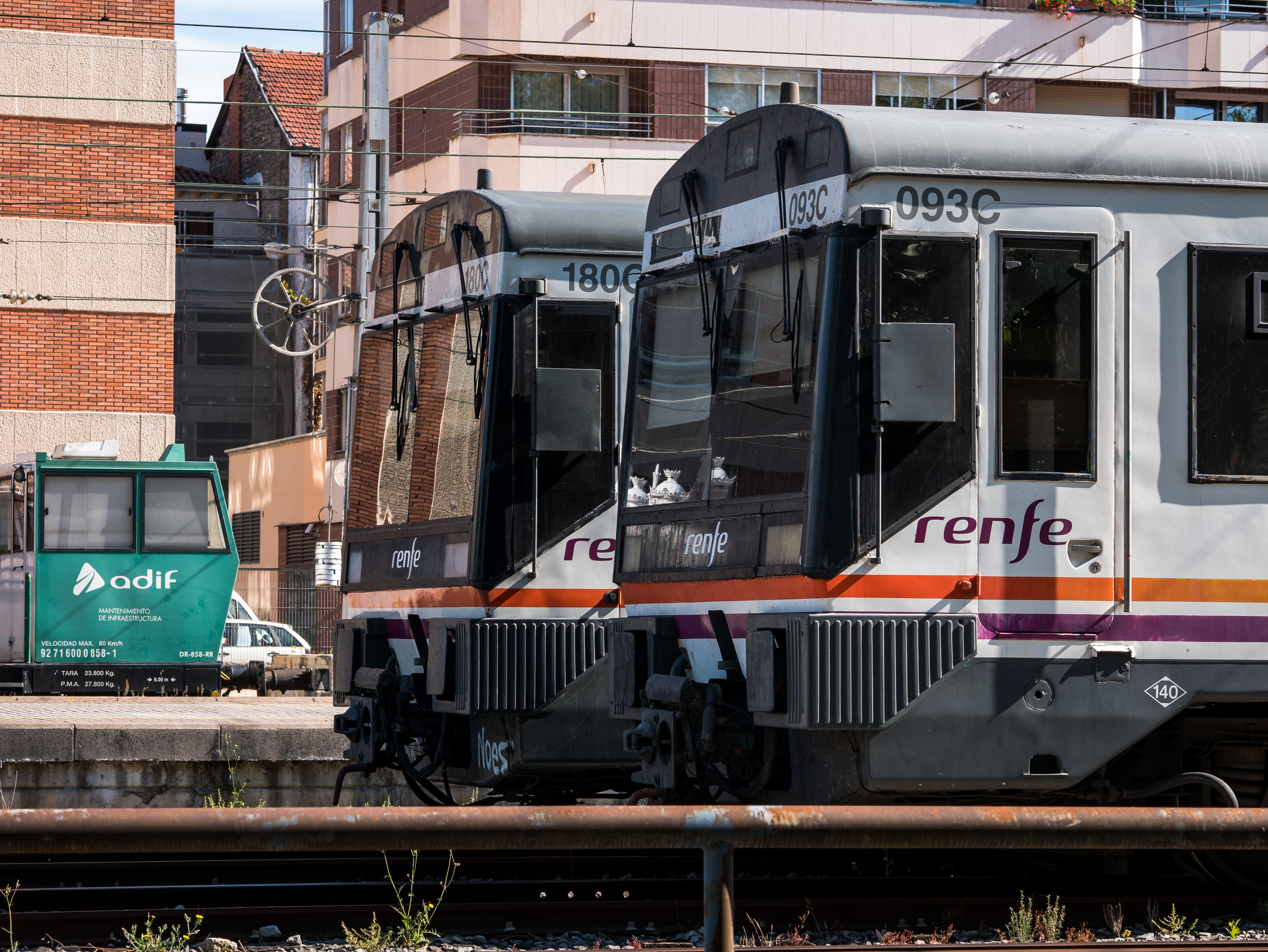 Two Renfe Class 470 trains in the train station of Vitoria-Gasteiz, Basque Country, Spain